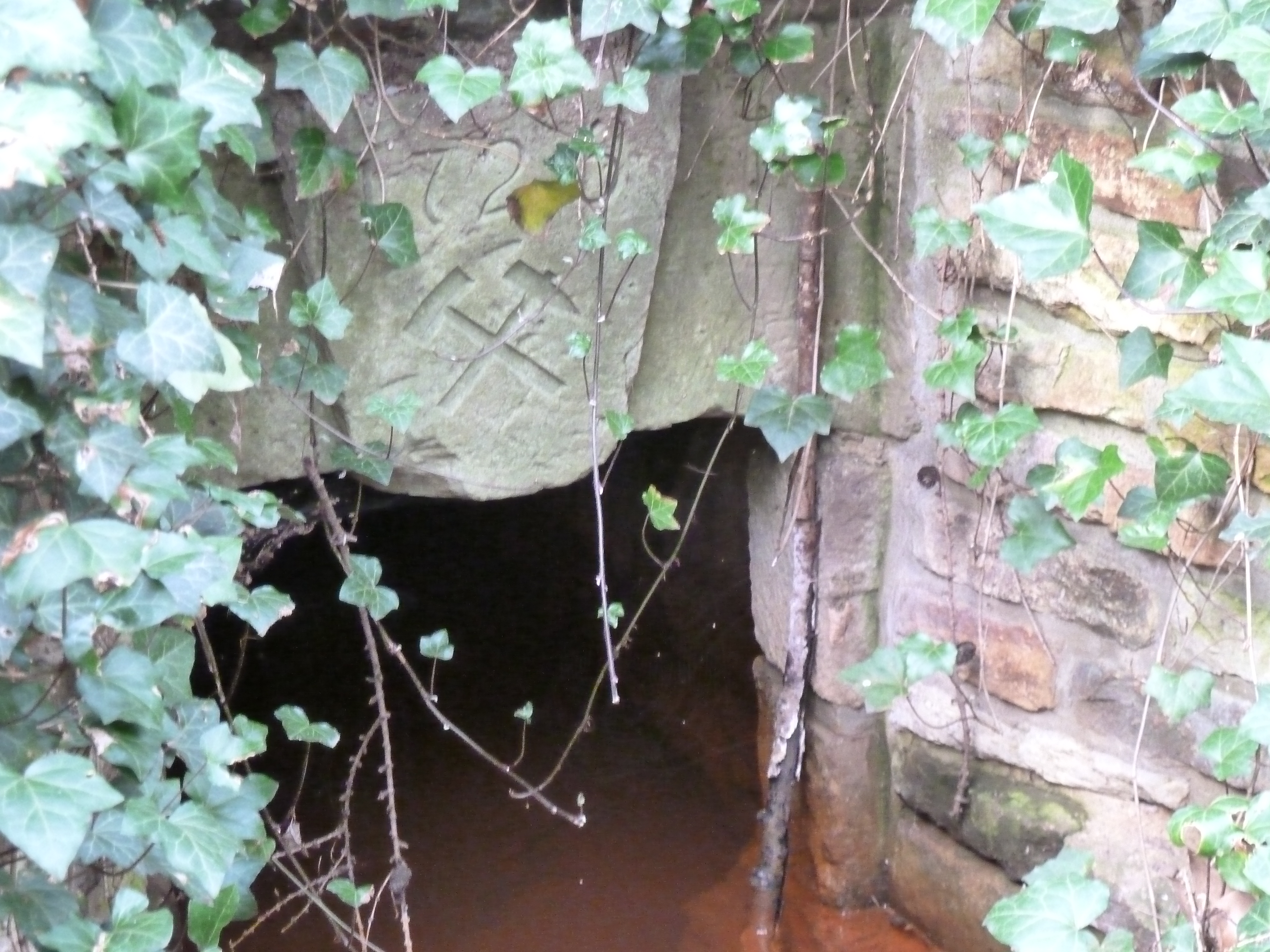 Adit-mouth of the Clauss gallery for channelling the water from the Pesterwitz and Kohlsdorf coal-mines to the Wiederitz rivulet. Built 1726—1830; length 1900 m.